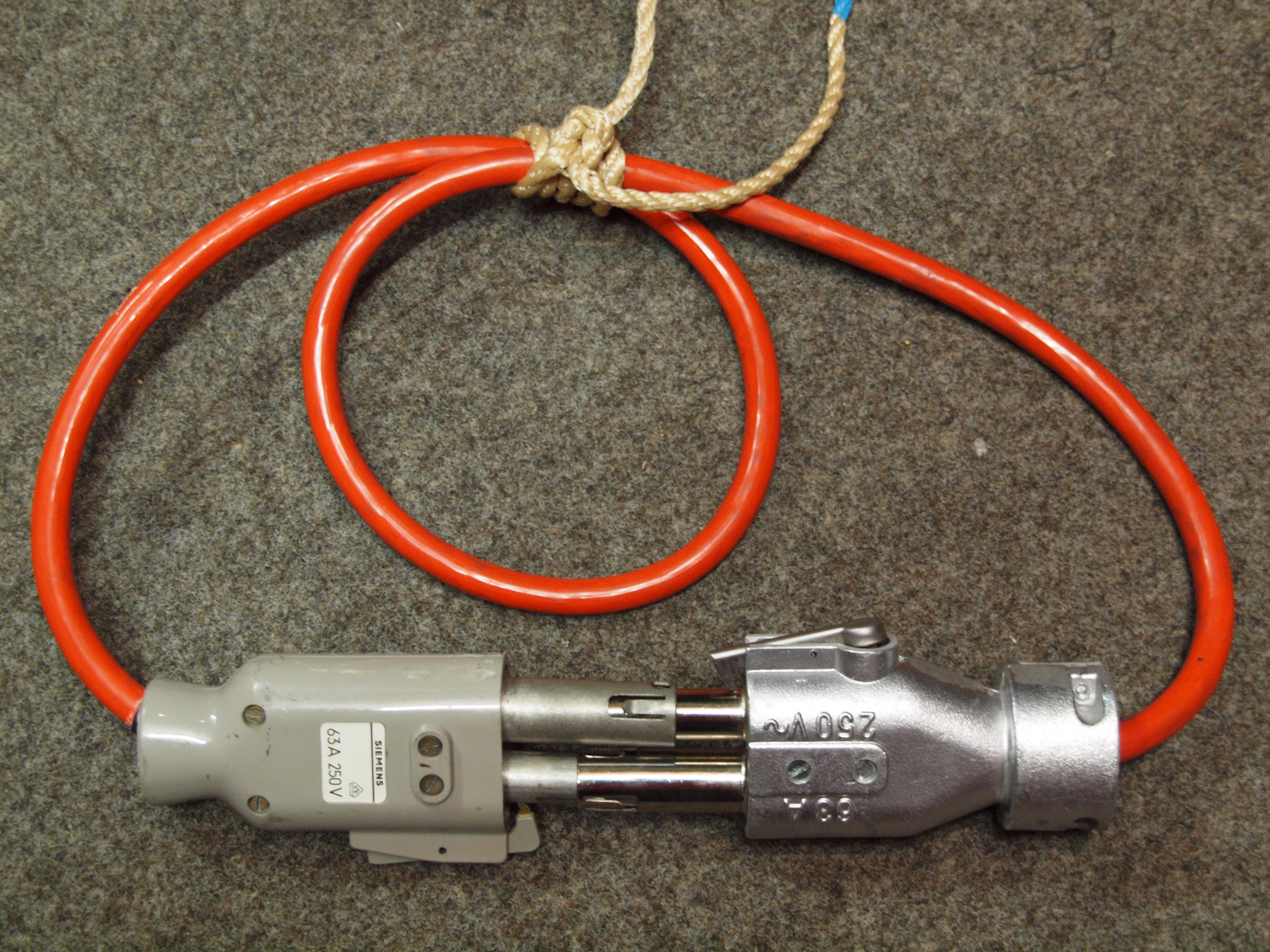 Plug equals Socket, Plugsystem called Eberl (german norm DIN 56905)